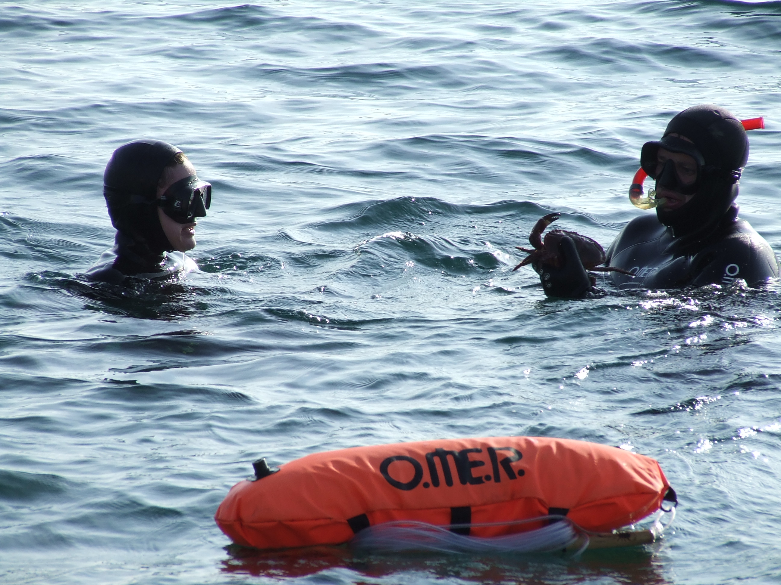 Spearfishing in Portland